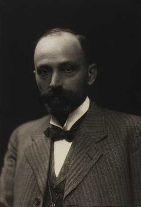 Christian Preben Emil Sarauw (1865-1925), Danish philologist